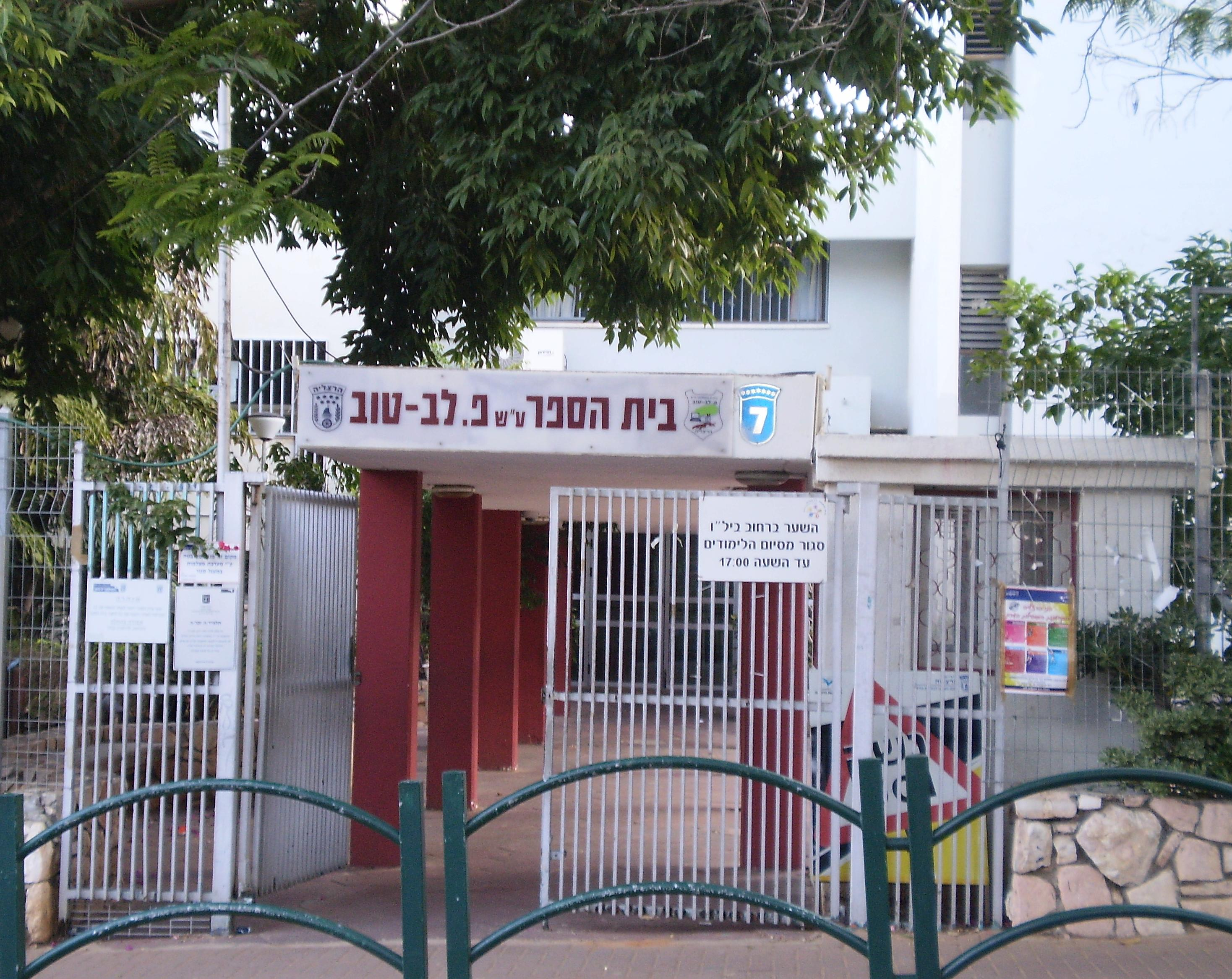 Lev-Tov school, Herzliya